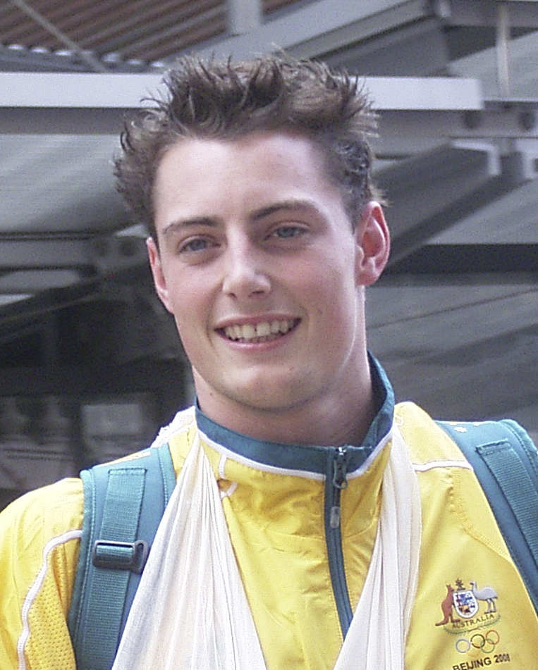 Olympic diver Scott Robertson, Brisbane Olympic Homecoming Parade